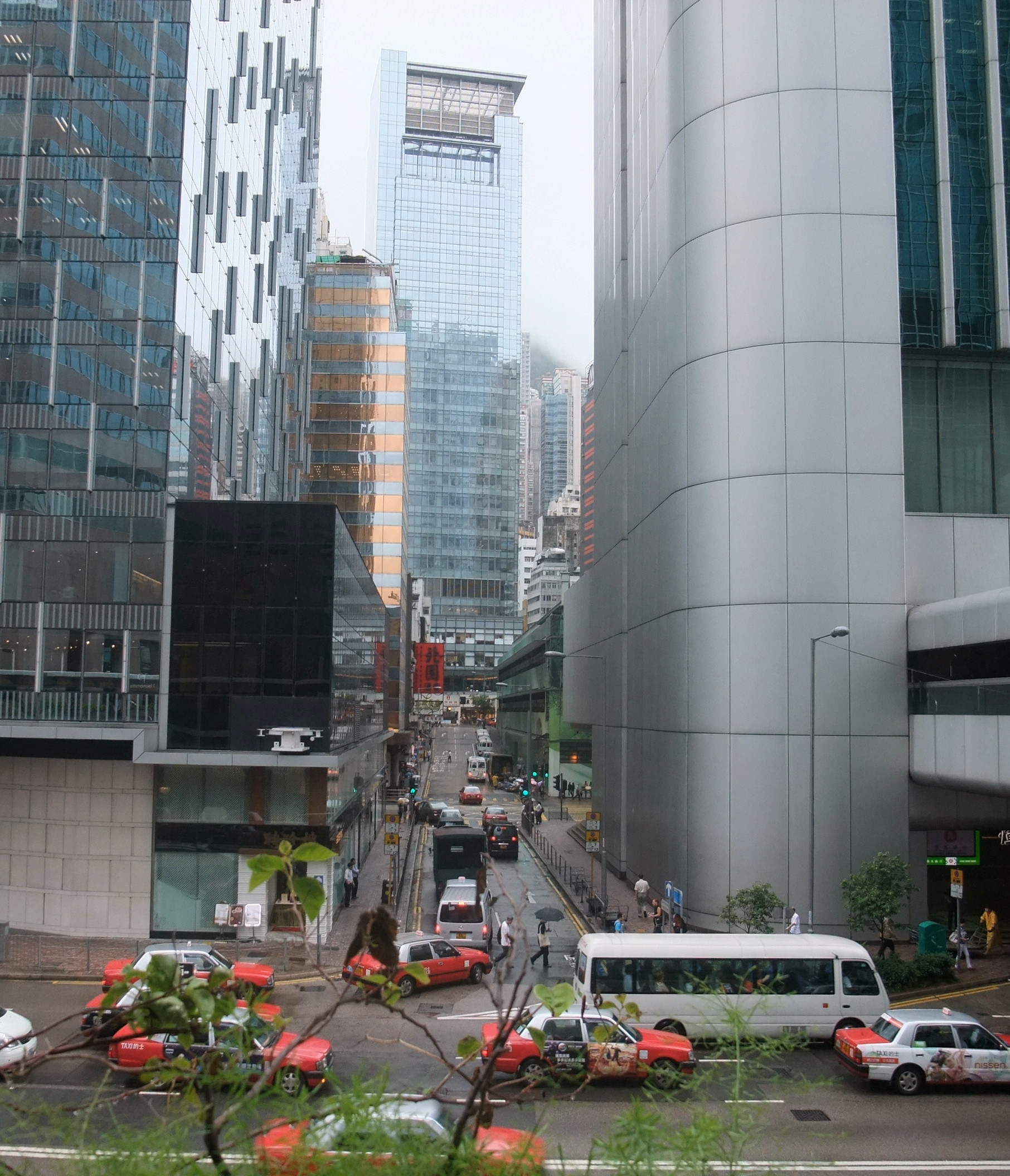 View from ConnaughtRoad into Queen Victoria Street towards WingsBuilding